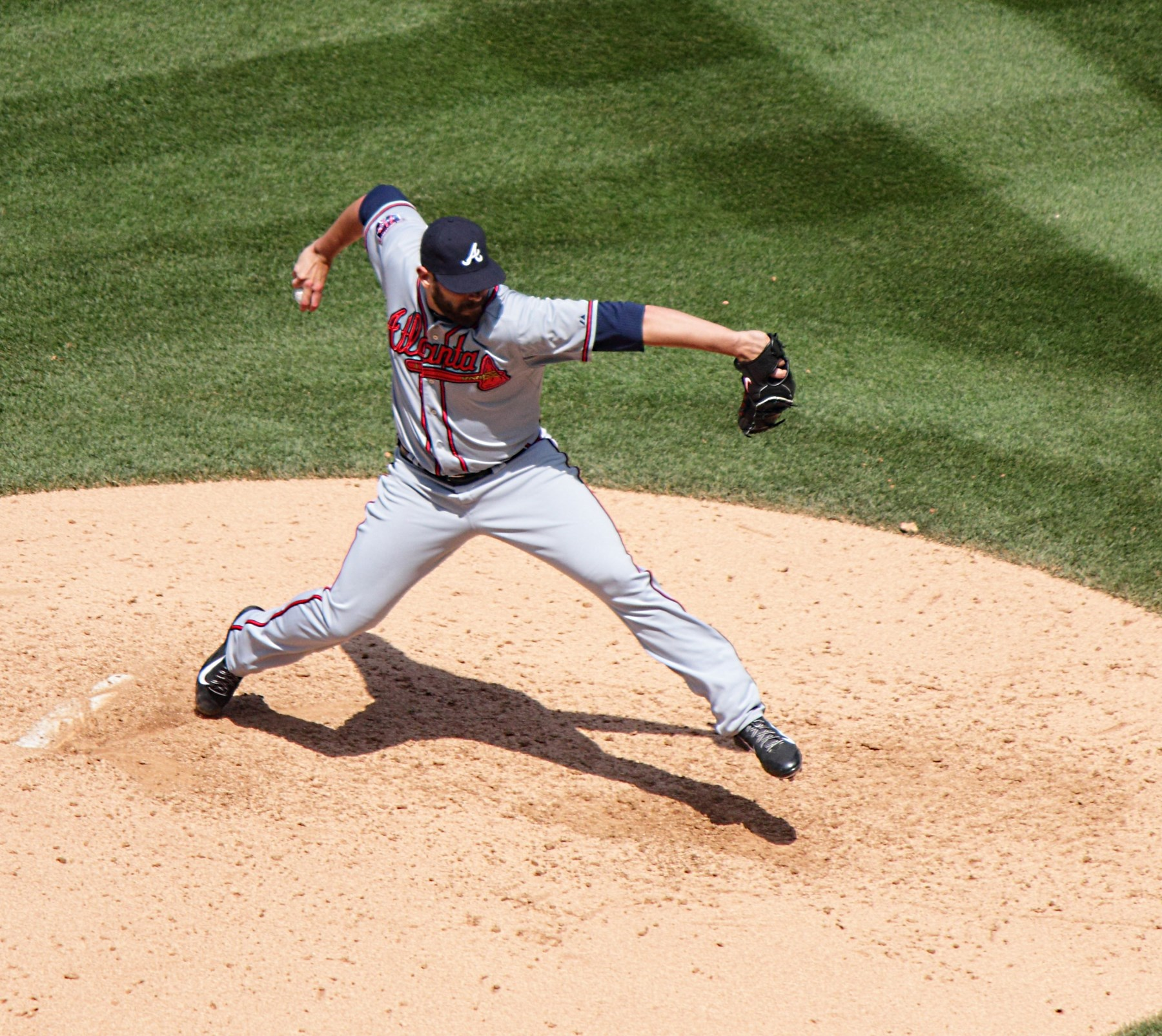 During a game on June 12, 2014 at Coors Field, Jordan Walden delivers a pitch in relief